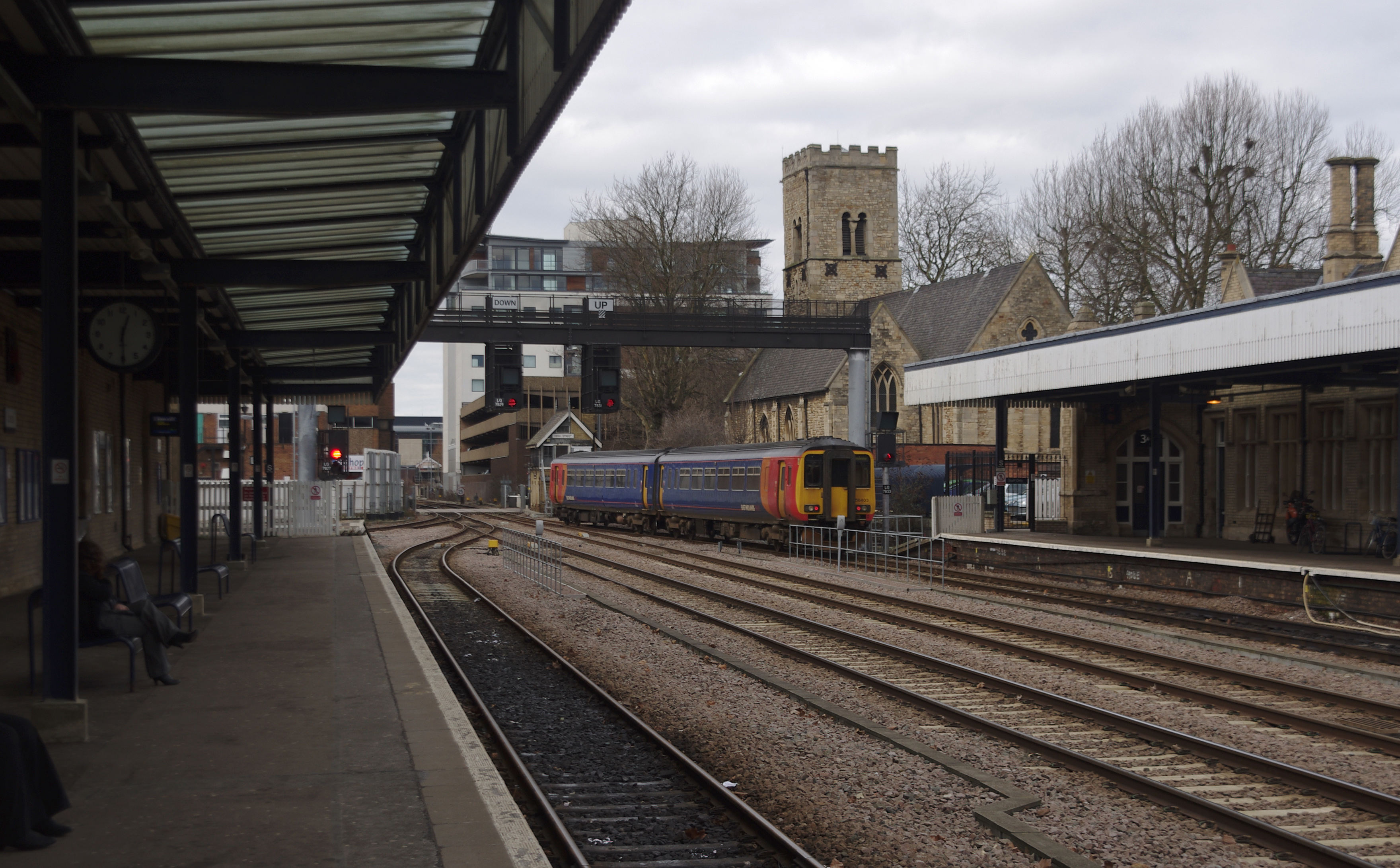 East Midlands Trains Super Sprinter DMU 156403 departs Lincoln Central, operating the Leicester-Lincoln service.